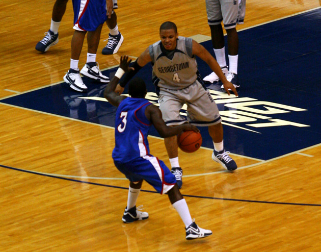 Chris Wright playing for the Georgetown Hoyas against American University Eagles